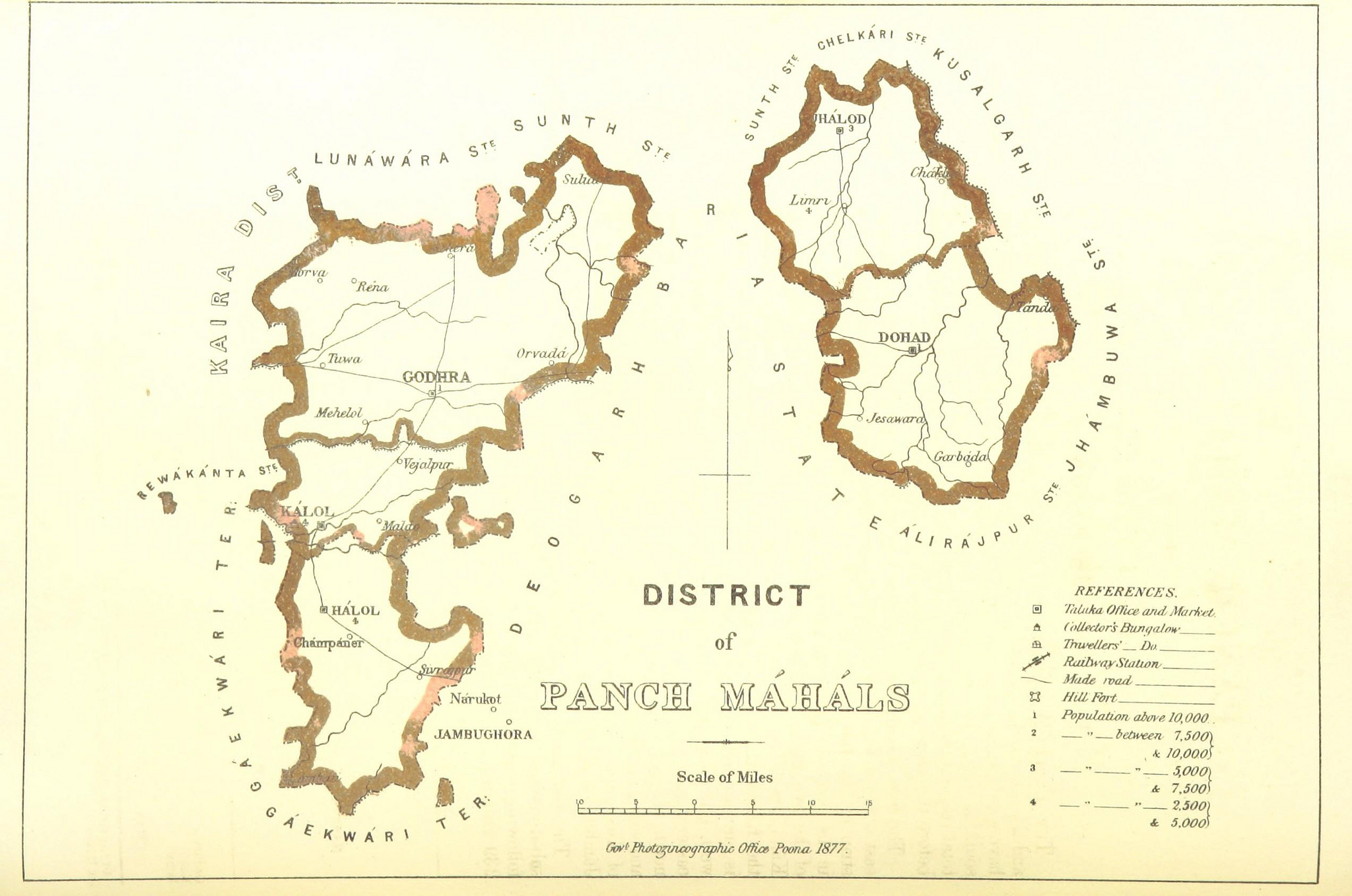 Panchmahal district British India 1896